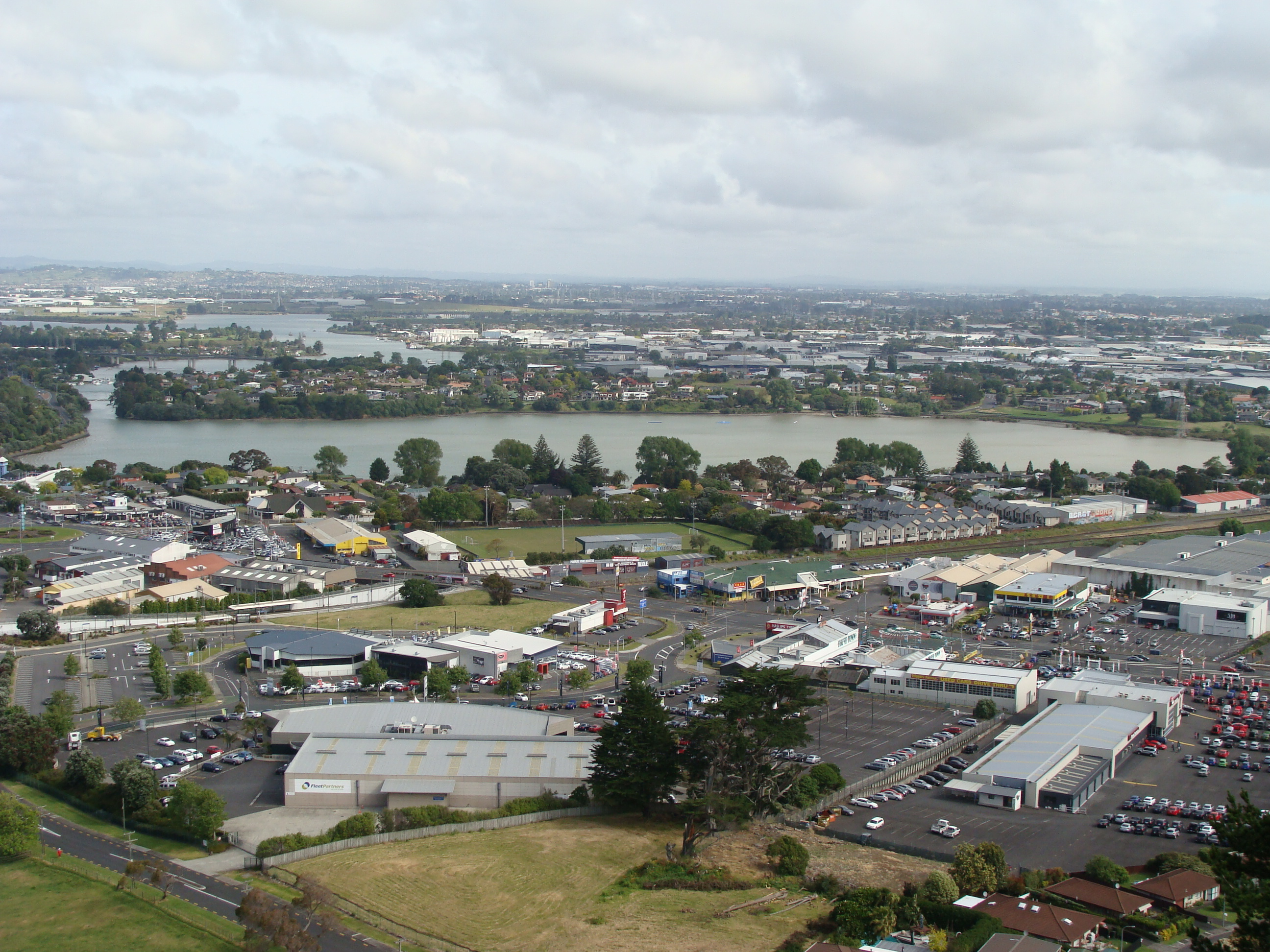 Panmure Basin from Mount Wellington, Auckland, New Zealand. Looking southeastwards.